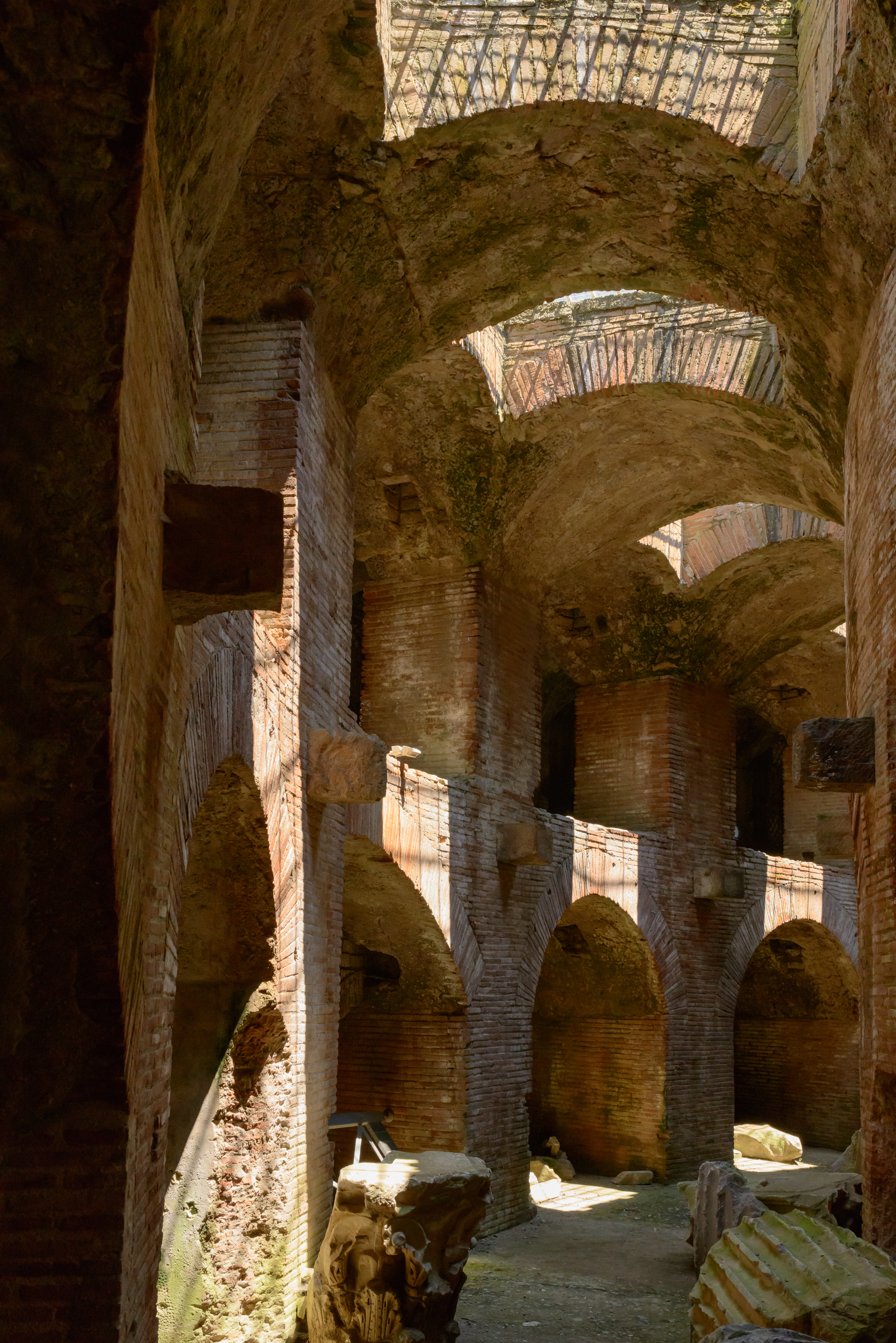 Cellar of the Flavian Amphitheater (Anfiteatro flaviano puteolano), located in Pozzuoli (the third largest Roman amphitheater in Italy).